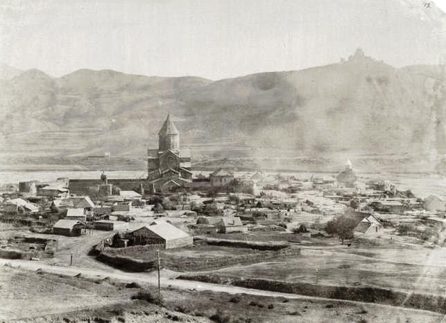 Image Title: Voenno-Gruzinskaia doroga. Sel. Mtskhet. Byvshaia stolitsa Gruzii. Alternate Title: Georgian Military Road; Mtskheta, former capital of Georgia.